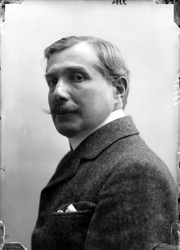 Enrico Reinach fotografato da Mario Nunes Vais